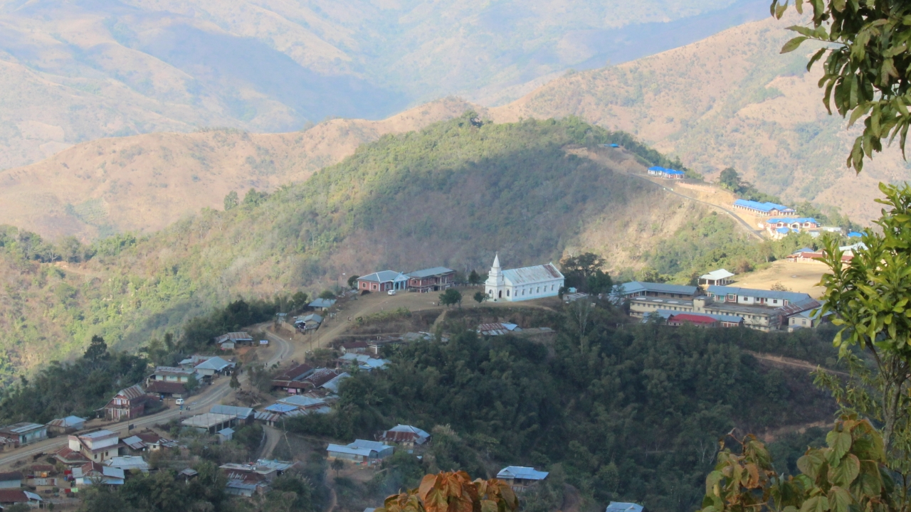 machi